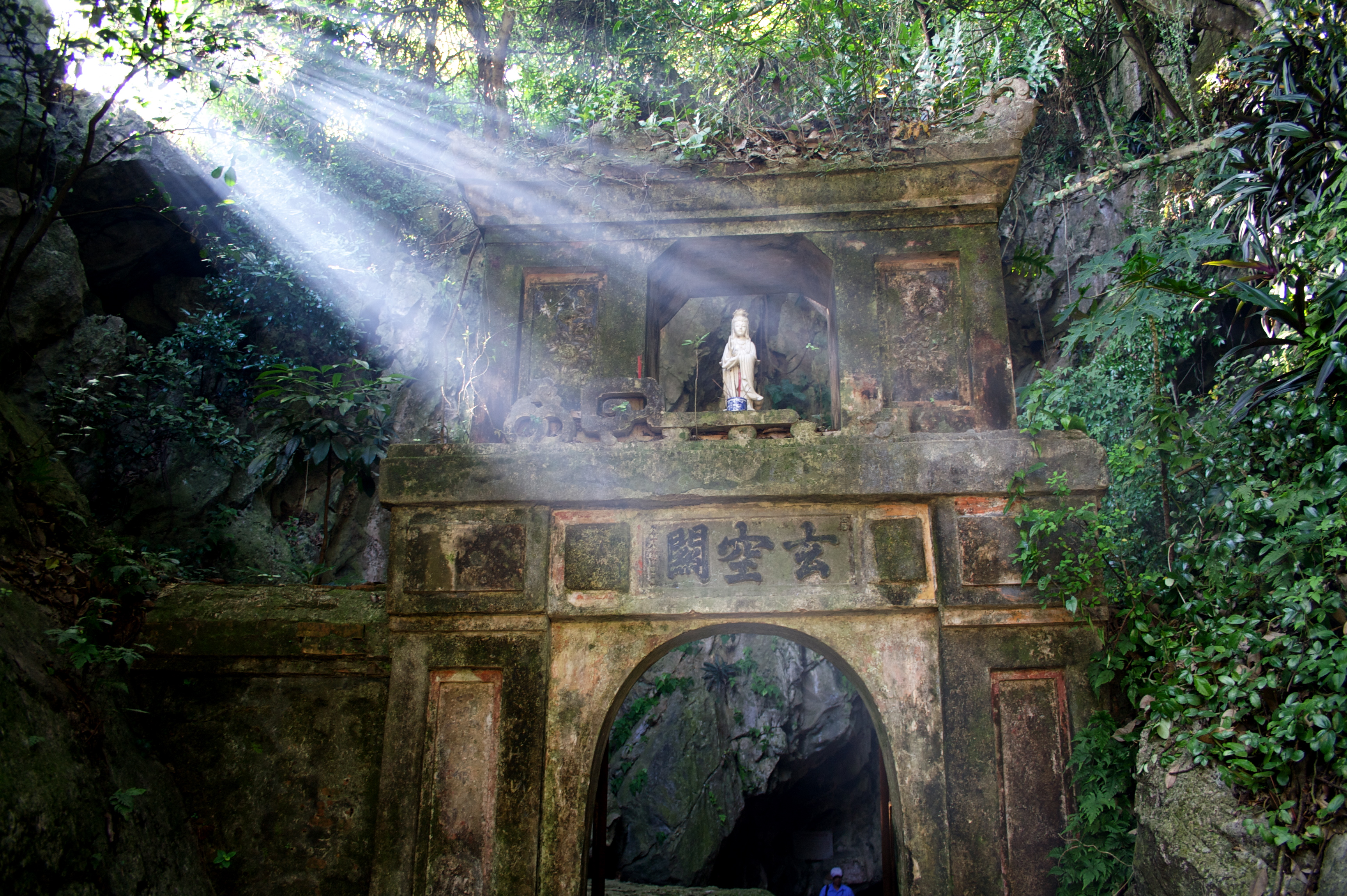 Nice light through the trees.